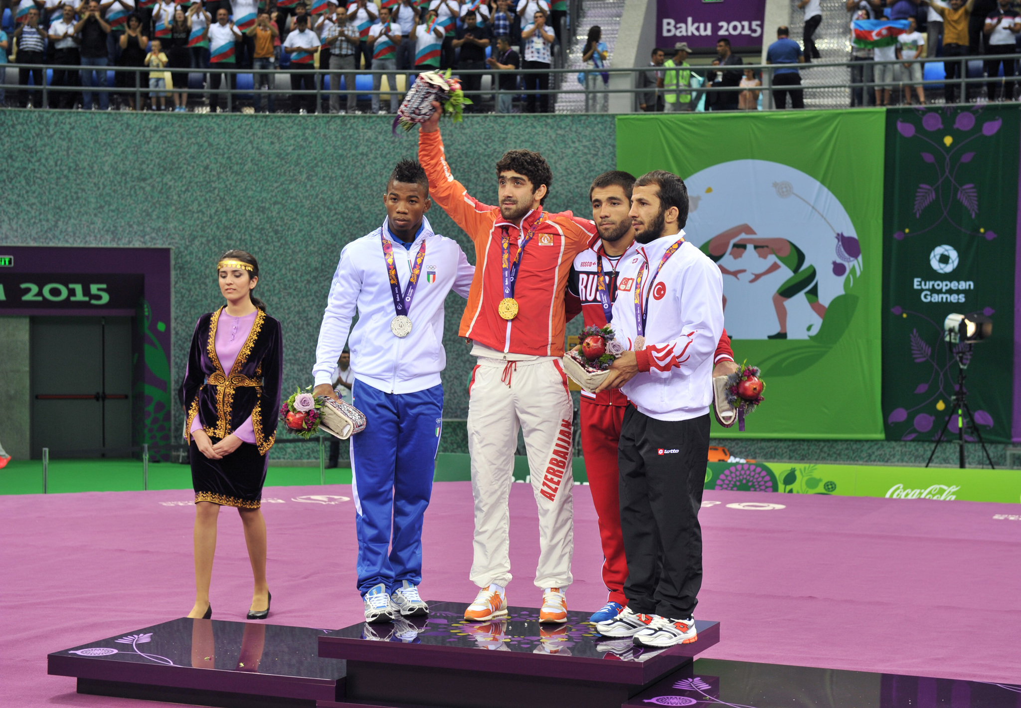 Wrestling at the 2015 European Games